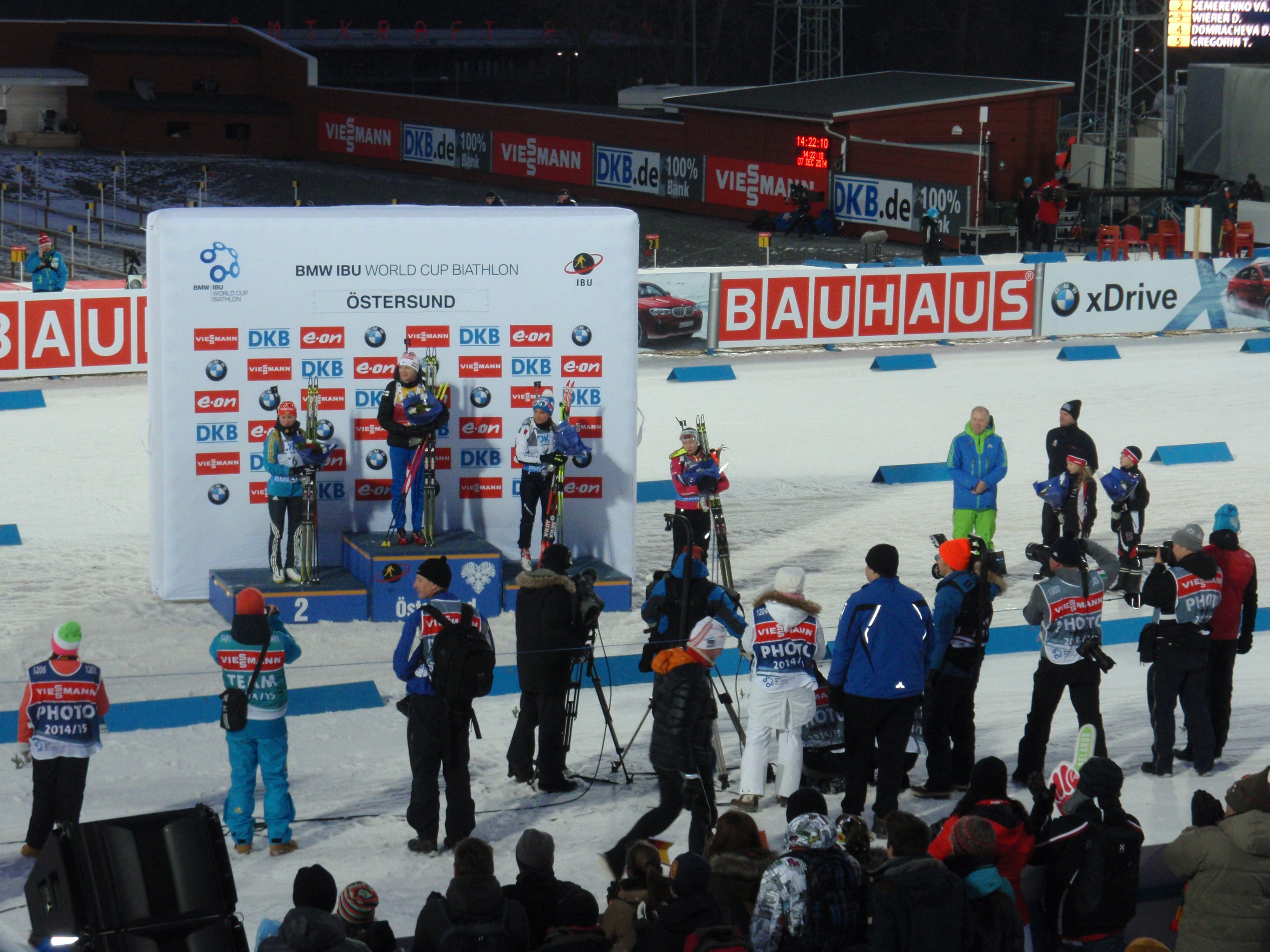 Pricecermony at Womans pursuit in Östersund 2014 1 Kaisa Mäkäräinen FIN 2: Valj Semerenko UKR 3: Dorothea Wierer ITA